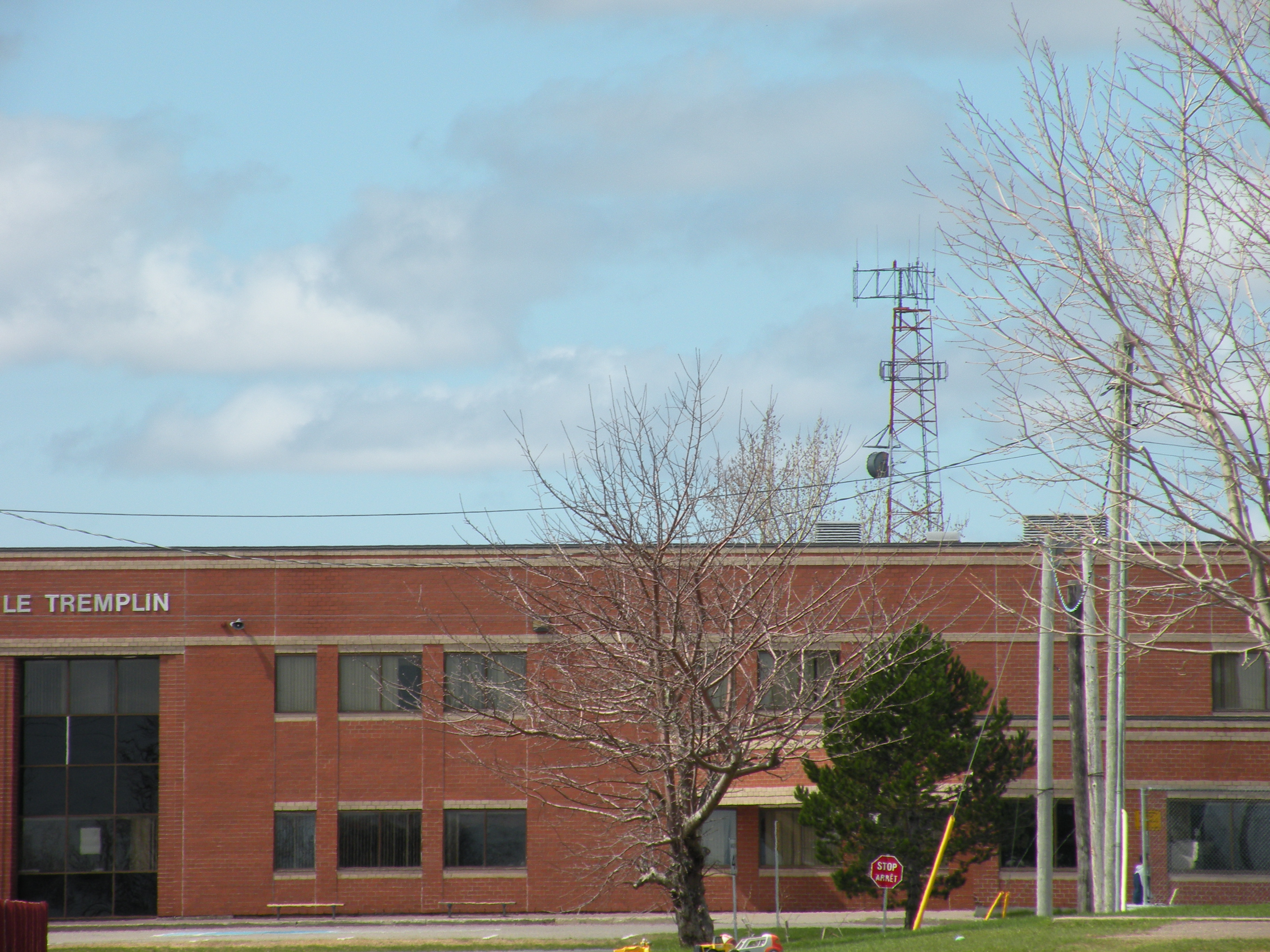 Le Tremplin school in Tracadie-Sheila, New Brunswick, Canada.